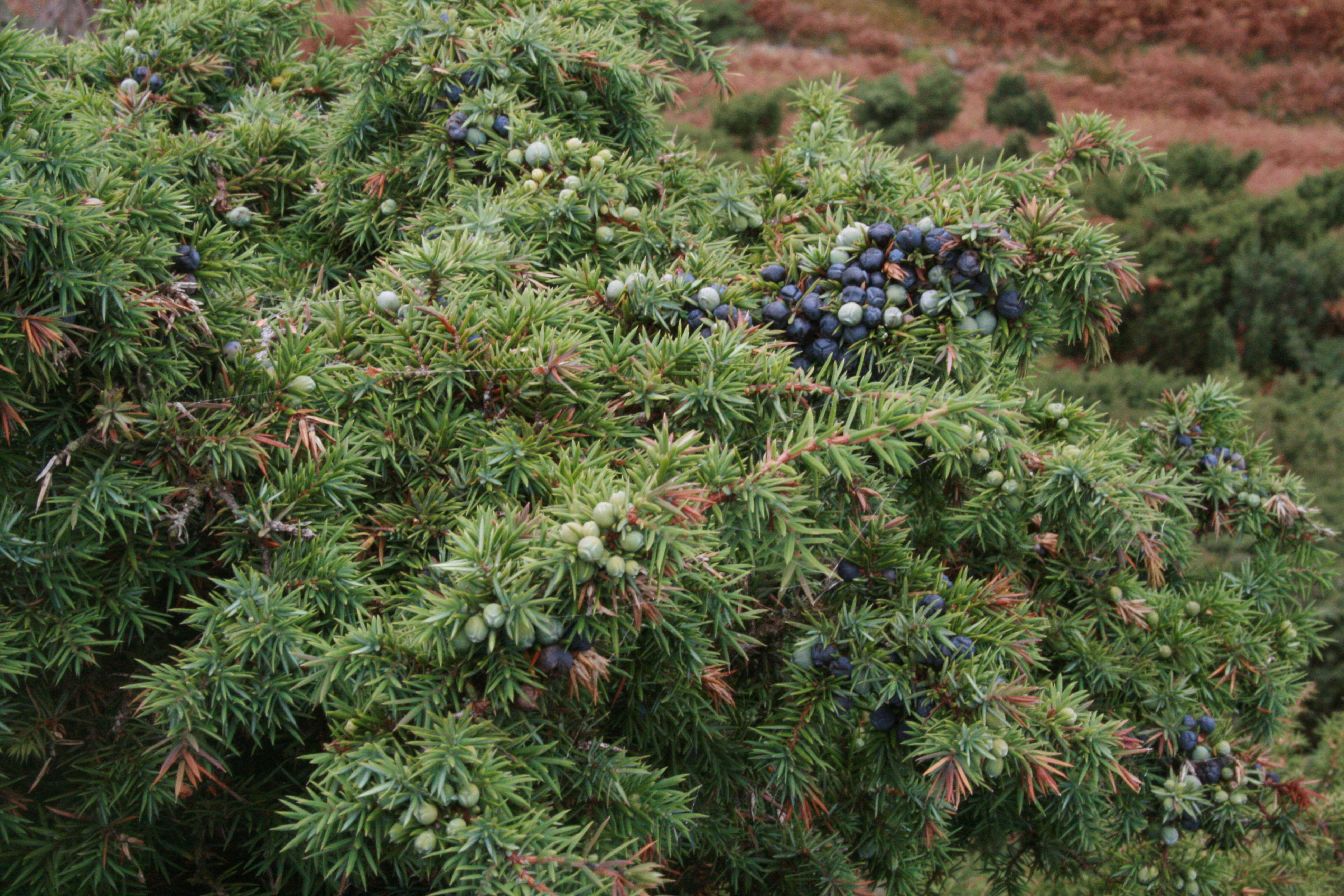 Juniperus communis, Haweswater, Cumbria, UK. The pale cones are this year's crop that will stay on the tree for another year; the purple cones are mature